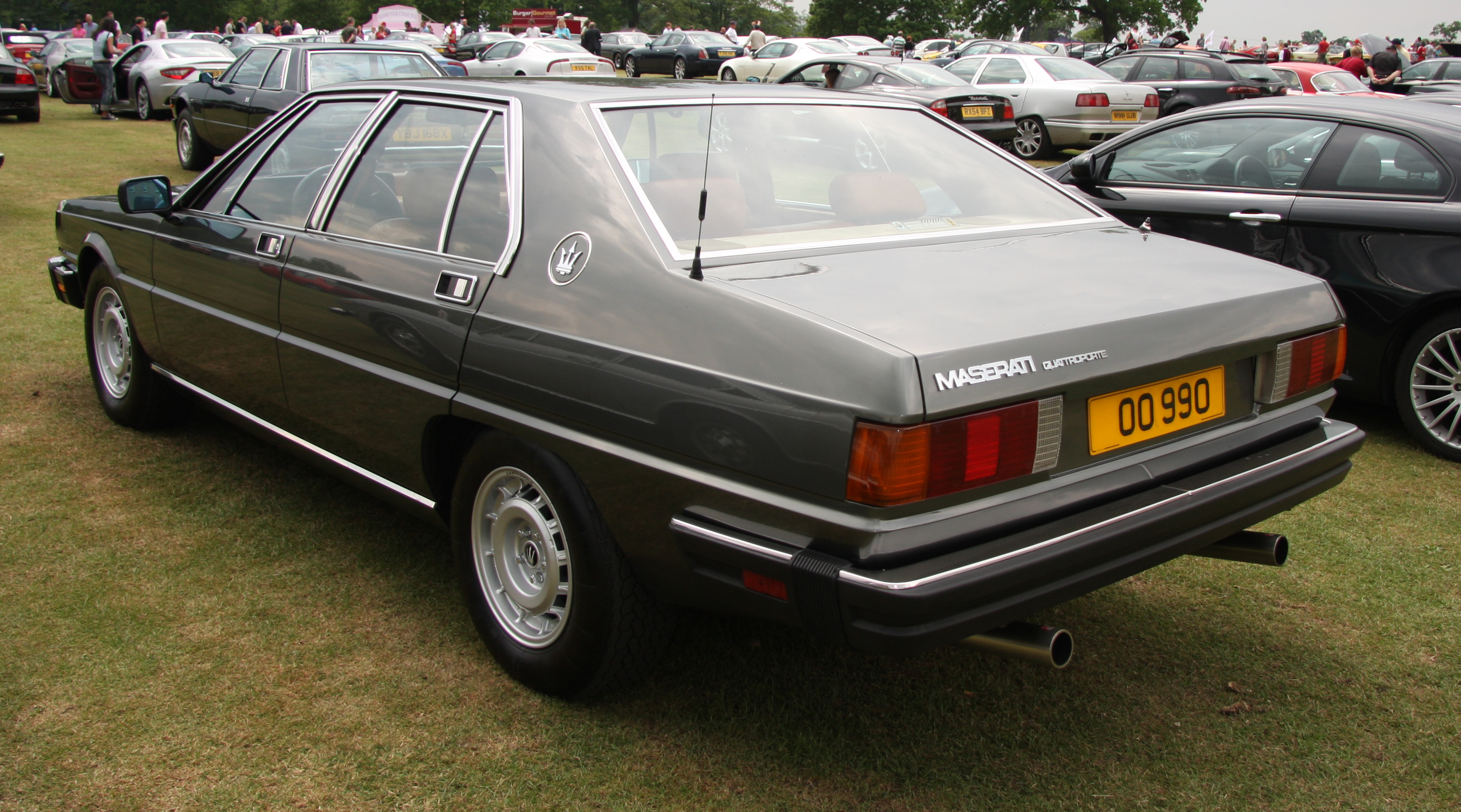 Auto Italia Stanford Hall June 2010